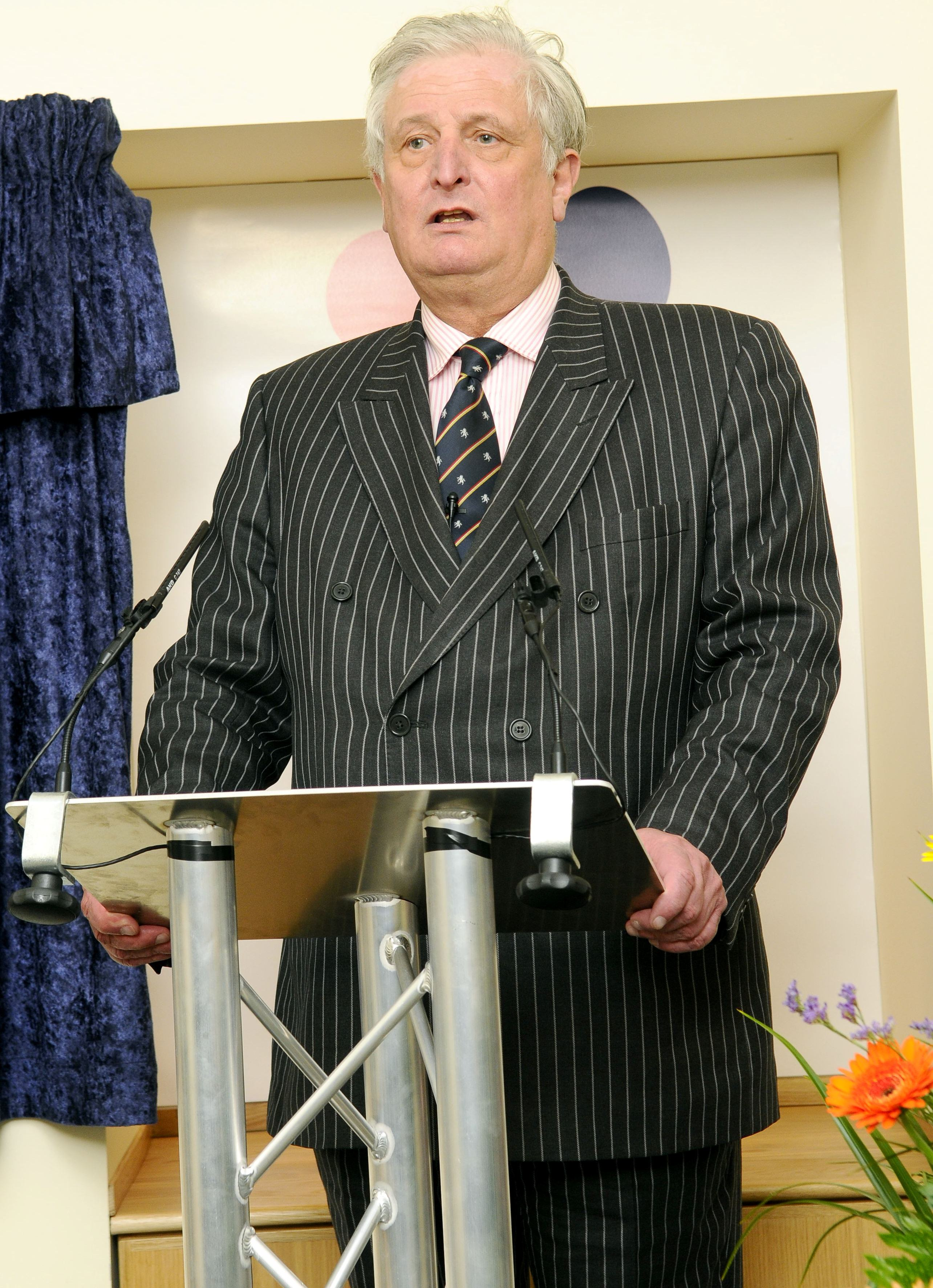 The Viscount De L'Isle, Lord Lieutenant of Kent, speaking at the opening ceremony of Watling Court.